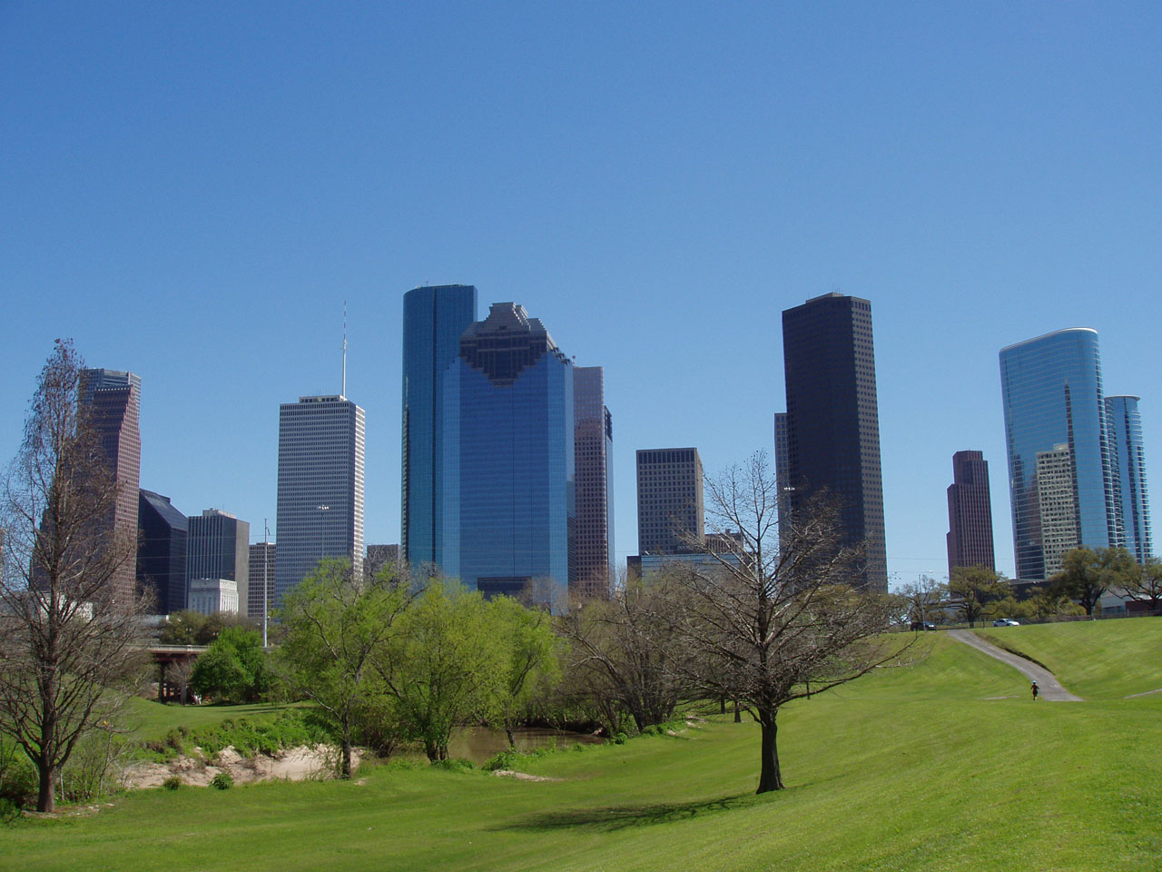 Downtown Houston from Eleanor Tinsley Park